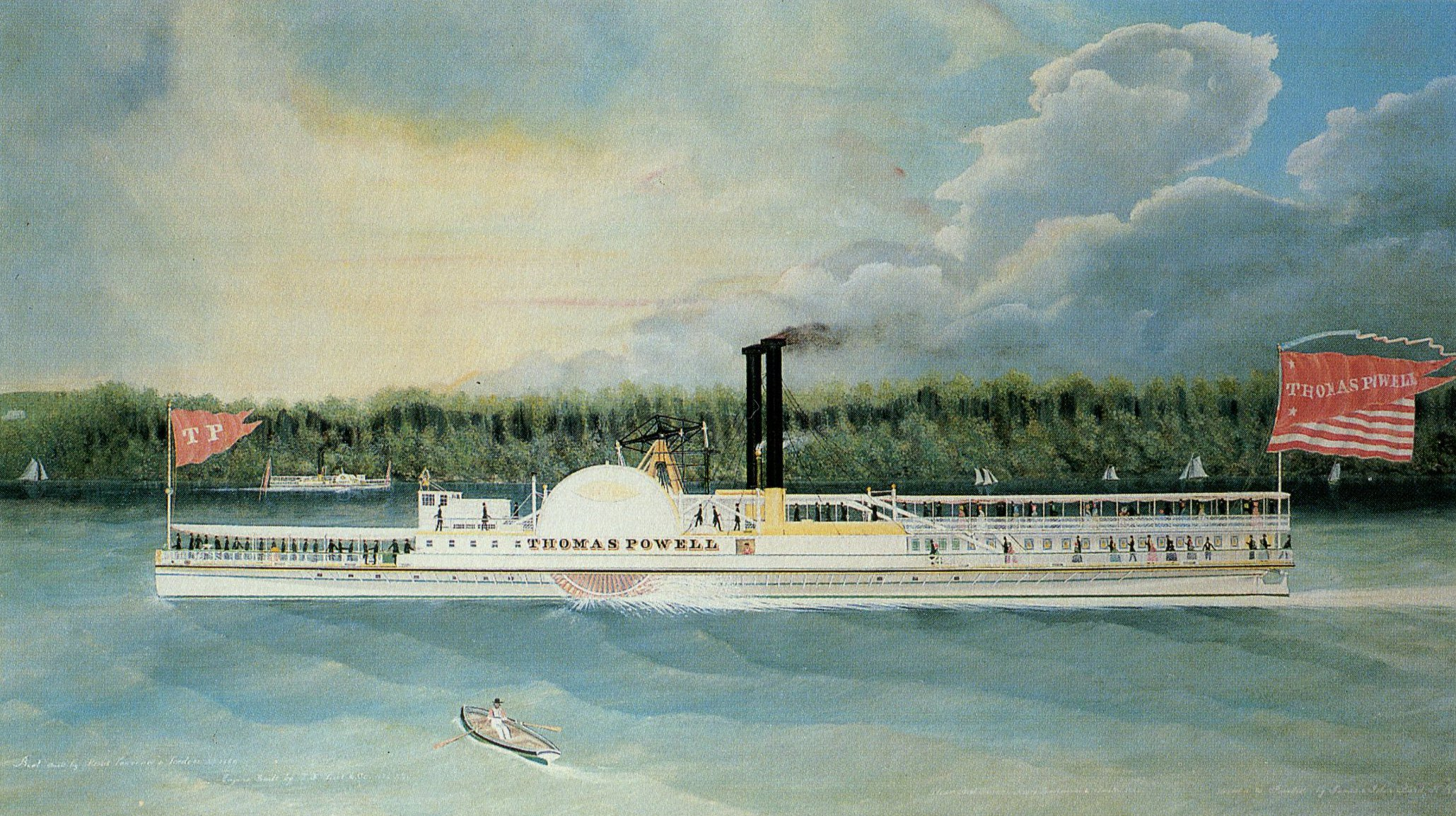 Thomas Powell, Hudson River steamboat, oil on canvas by James Bard.